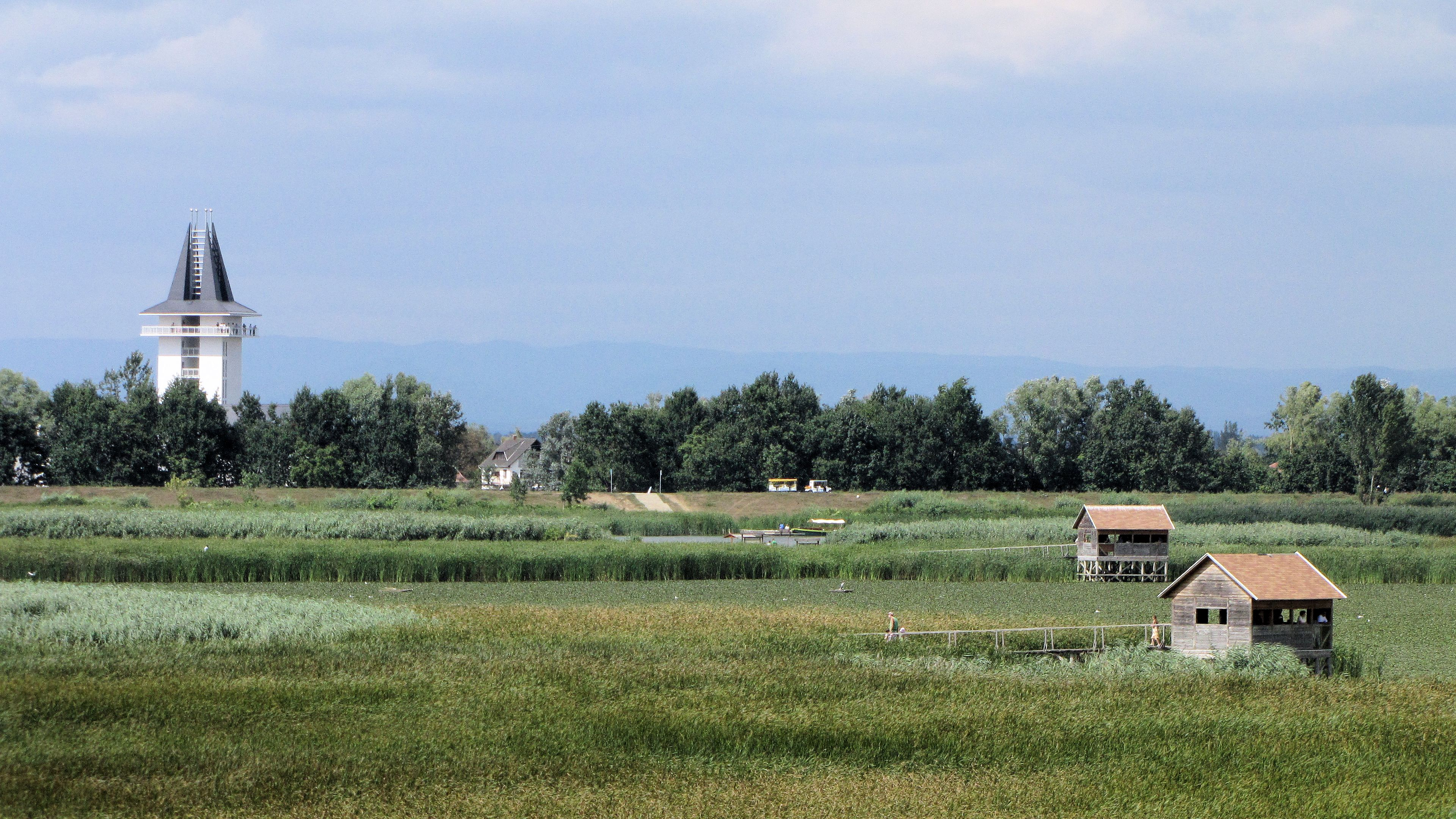 Lake Tisza Ecocenter, view from Lake Tisza, Poroszló, Hungary